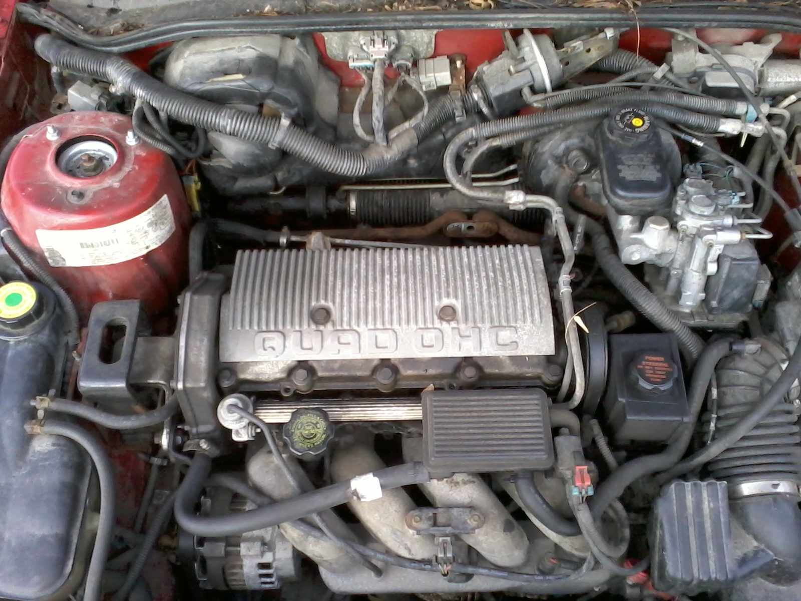 Quad OHC I4 engine